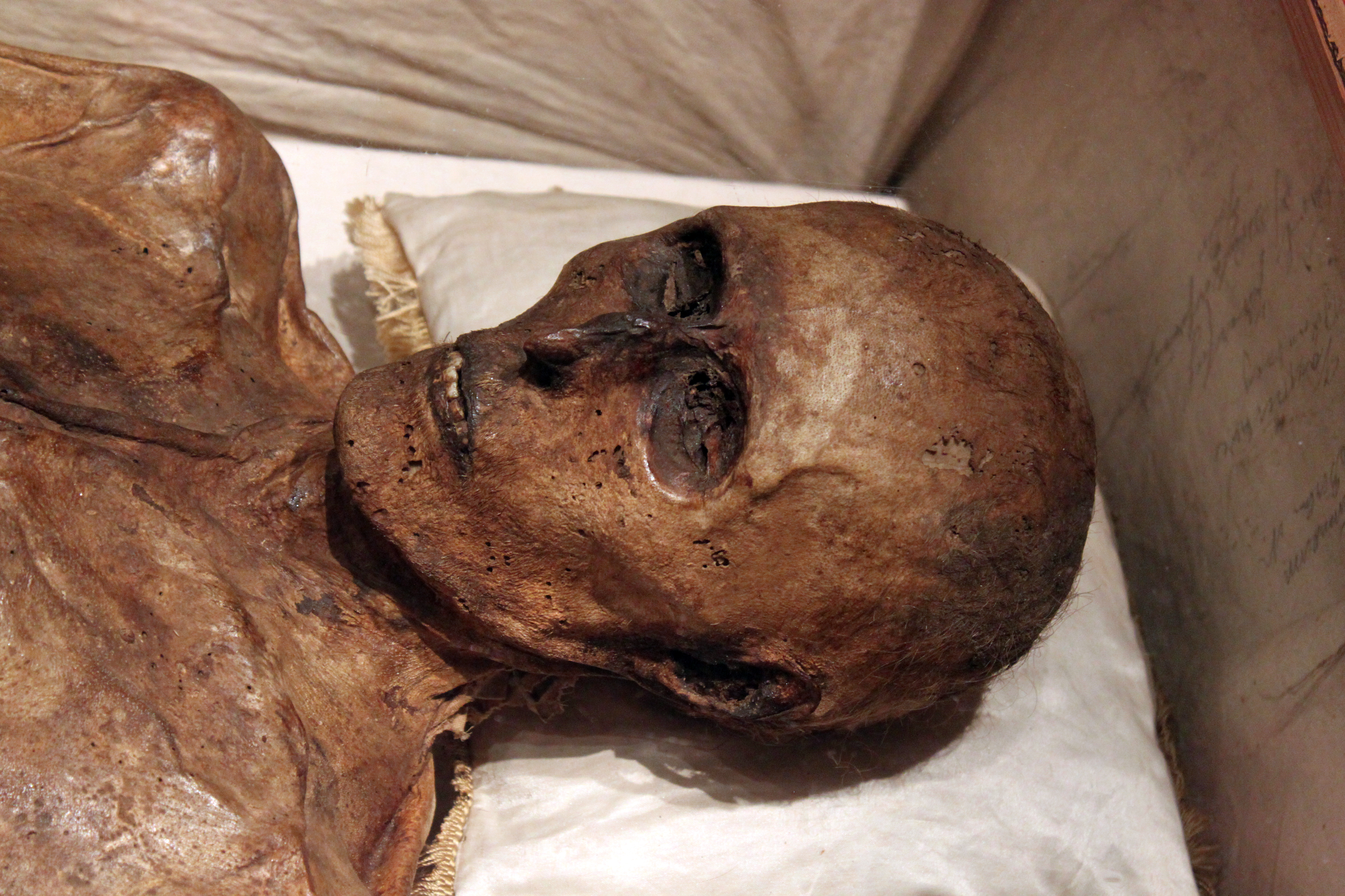 Mummy of Christian Friedrich von Kahlbutz in Kampehl, Brandenburg, Germany